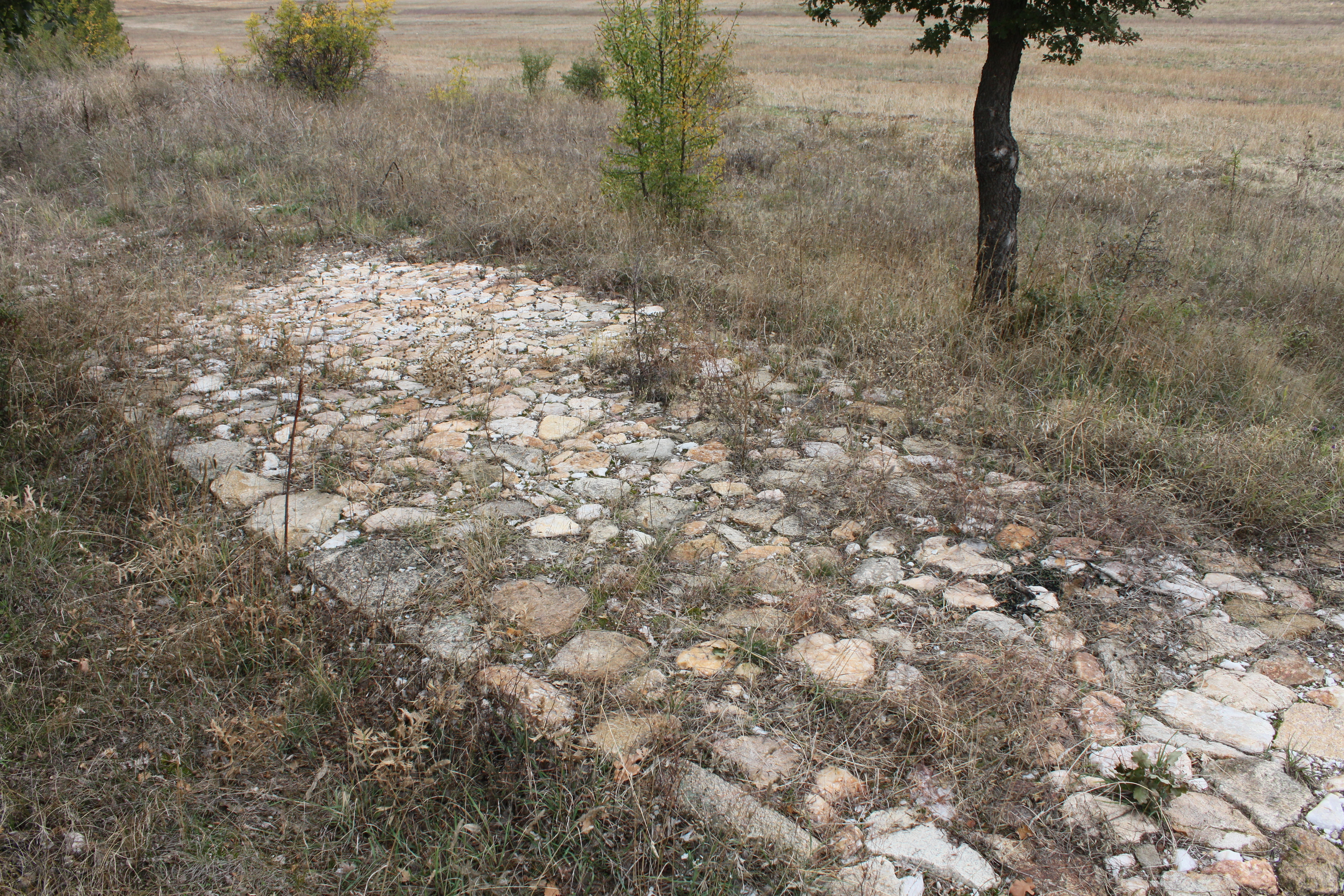 Castra rubra, Bulgaria